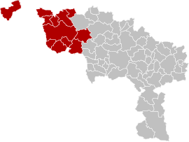 Map of Tournai-Mouscron District in province of Hainaut, Belgium.